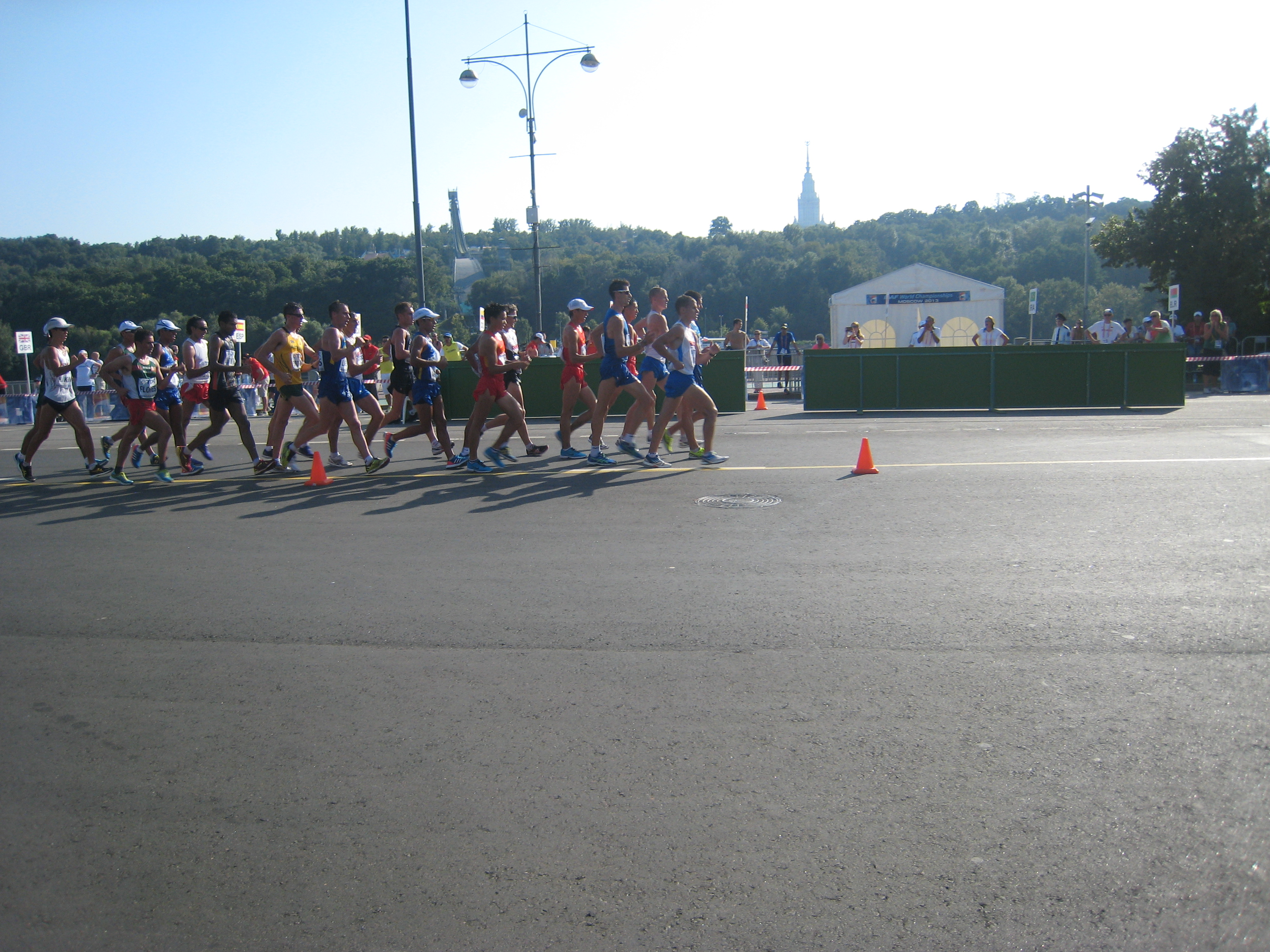 2013 IAAF World Championships in Moscow. 20 km walk men. The peloton leader is Aleksandr Ivanov (RUS)